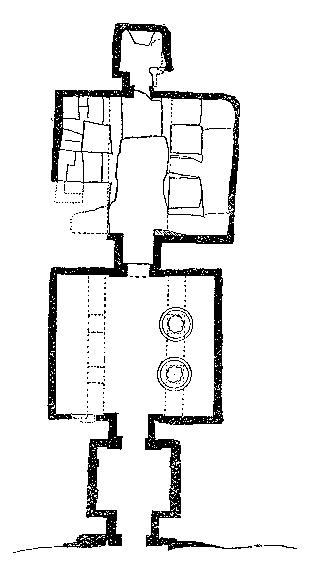 Plan of the Tomb of Meryre at Amarna